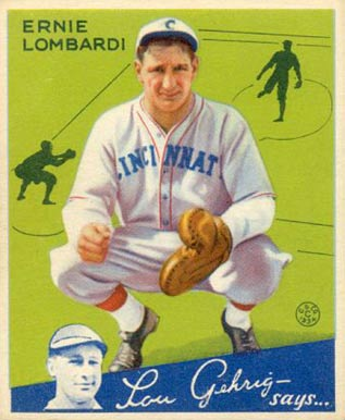 1934 Goudey baseball card of Ernie Lombardi of the Cincinnati Reds #35. PD-not-renewed.